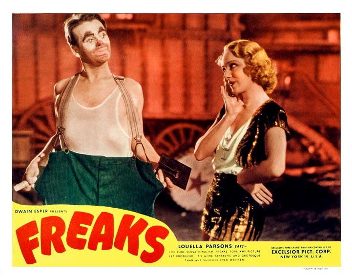 Colored lobby card for the 1932 MGM horror movie, Freaks. Image is assumed to be in the public domain as no copyright is in evidence.